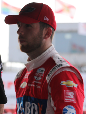 Ed Jones on the pitbox at St. Petersburg in 2019